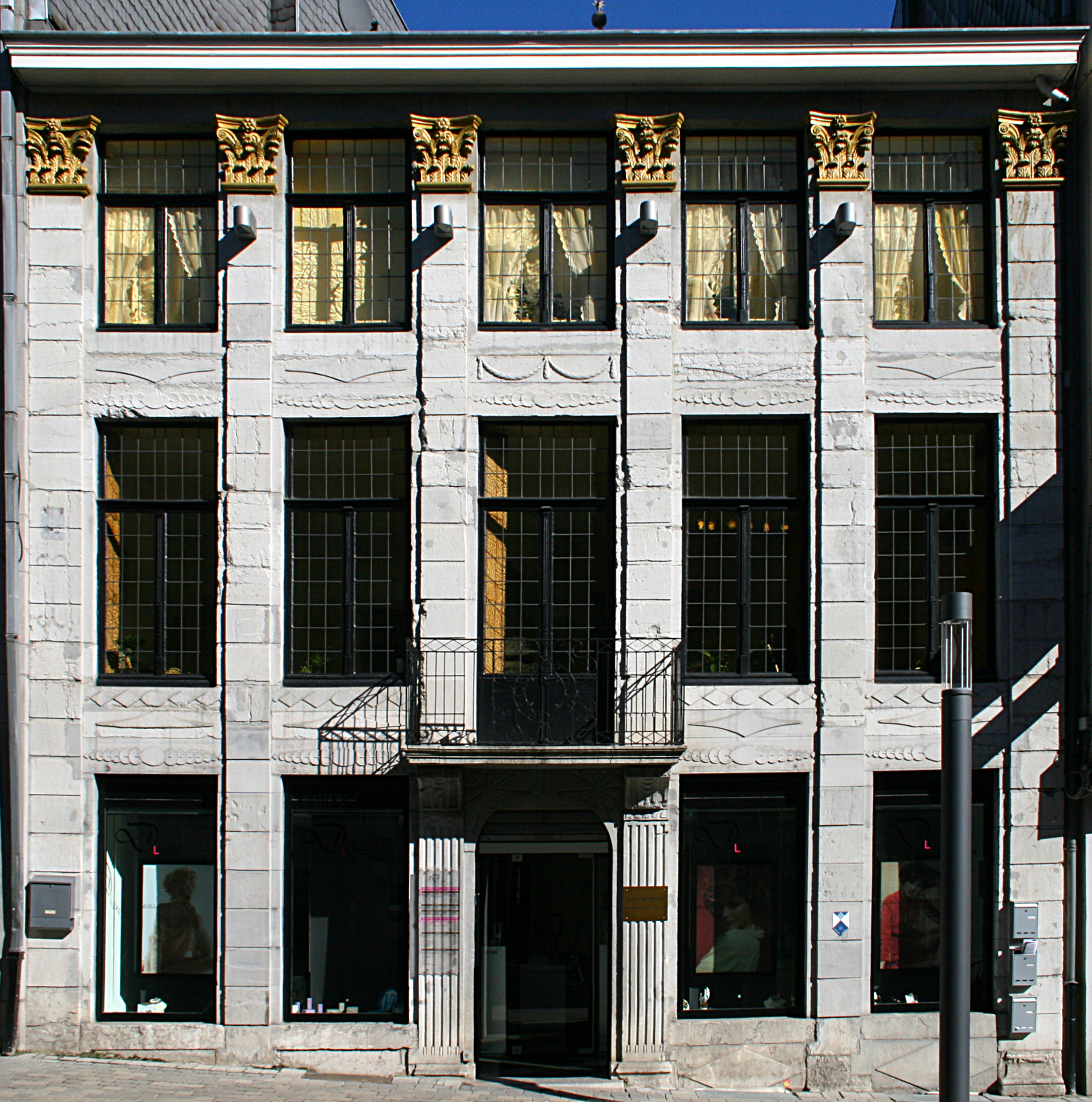 Eupen, Kirchstraße 16.